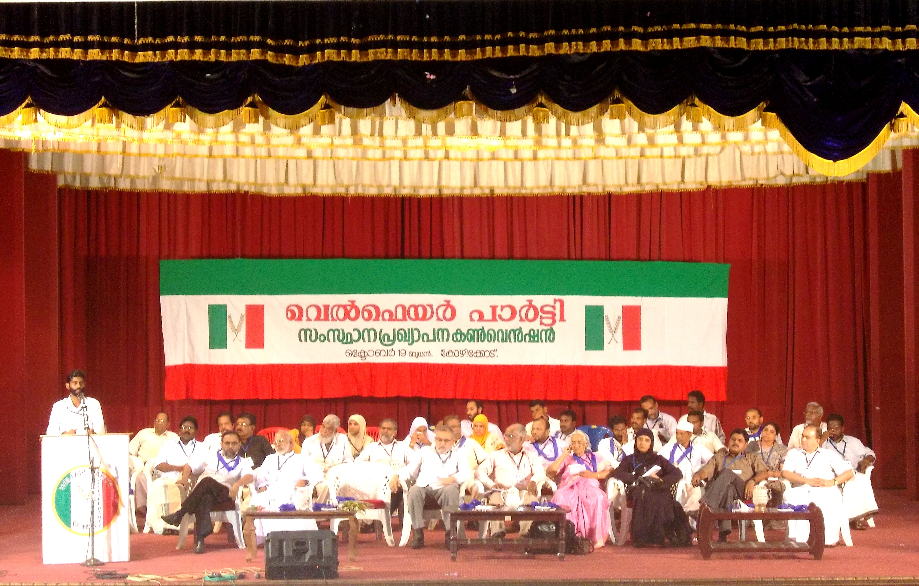 Kootil Muhammedali Address Welfare Party Kerala Lounching Conference...